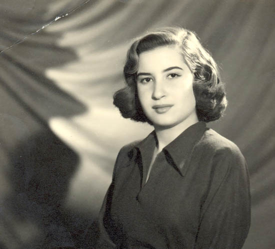 Queen Narriman, queen consort of Egypt before her wedding to King Farouk. Taken 1949.